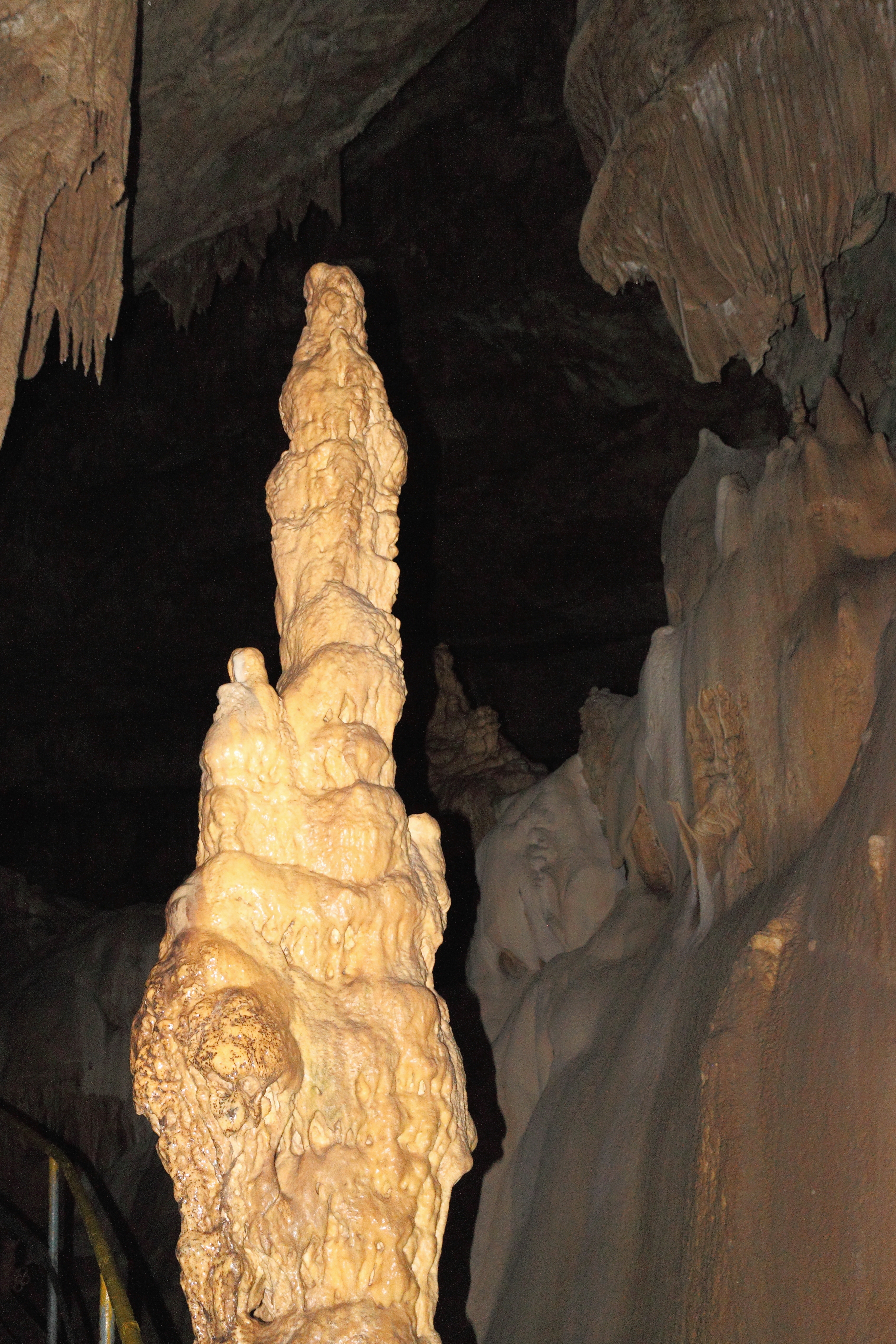 New Athos Cave. New Athos, Gudauta District, Abkhazia.